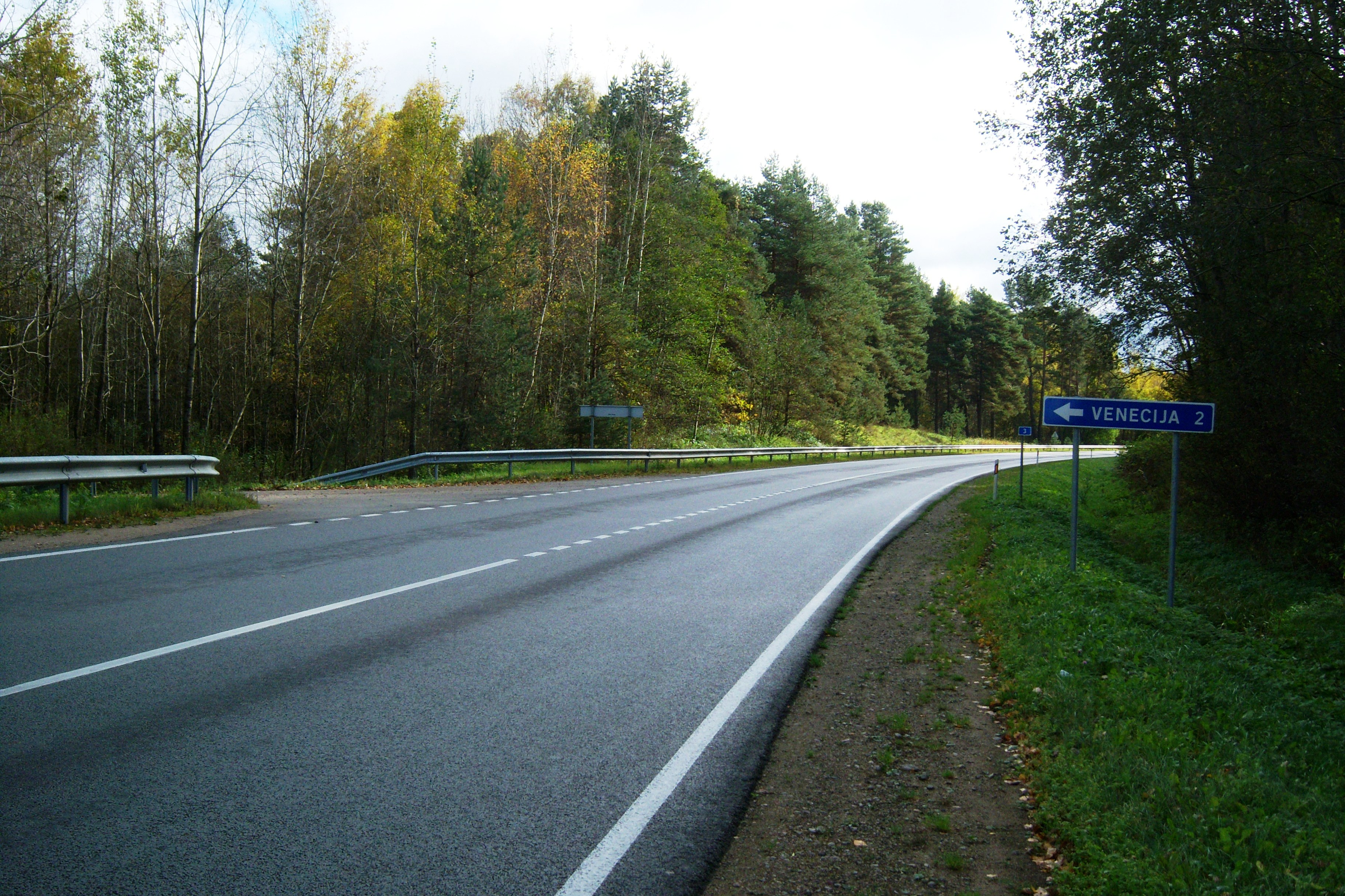 Turn from the KK120 road to Venecija, Jonava District, Lithuania